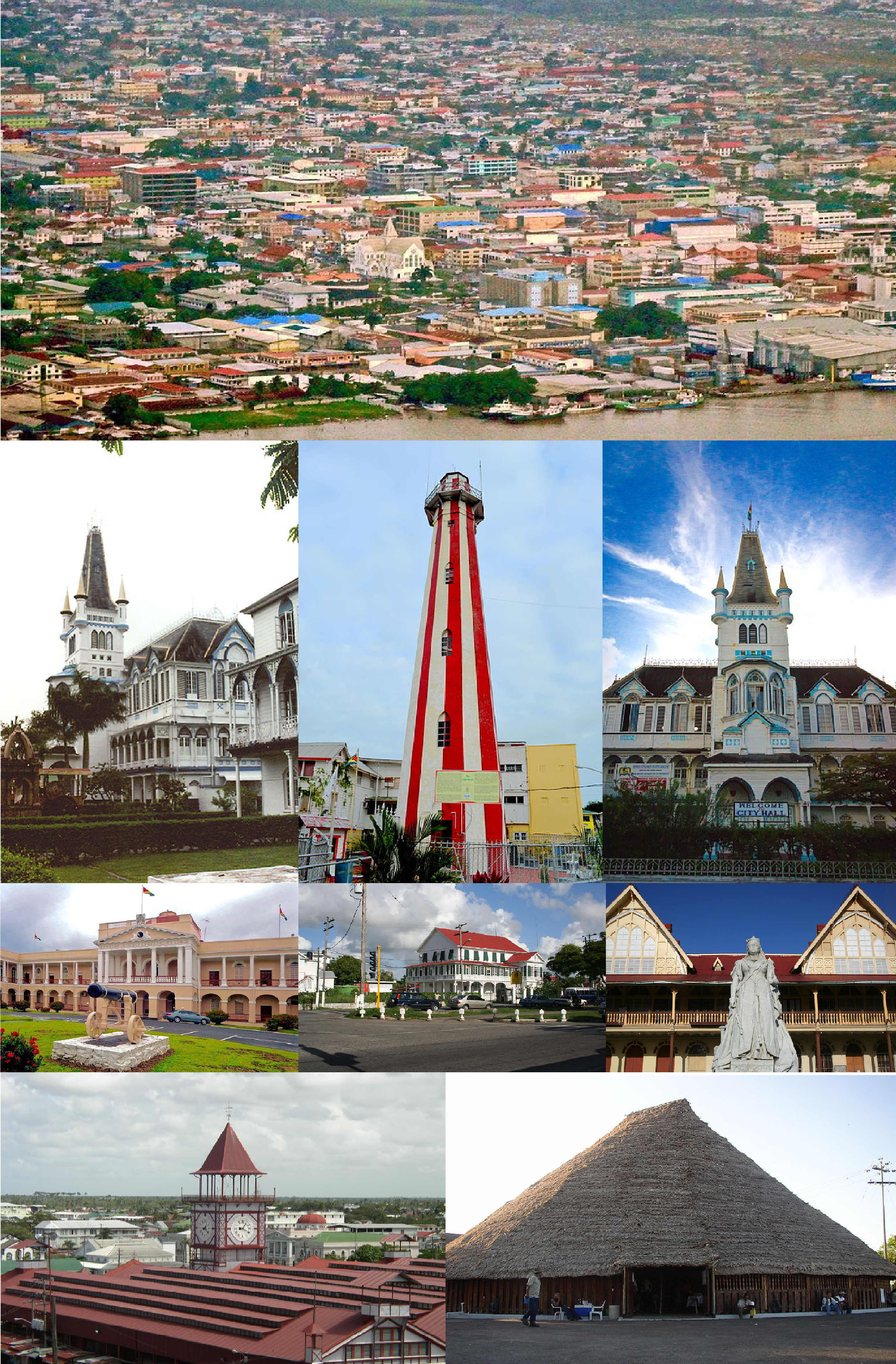 Georgetown, capital of the Cooperative Republic of Guyana.